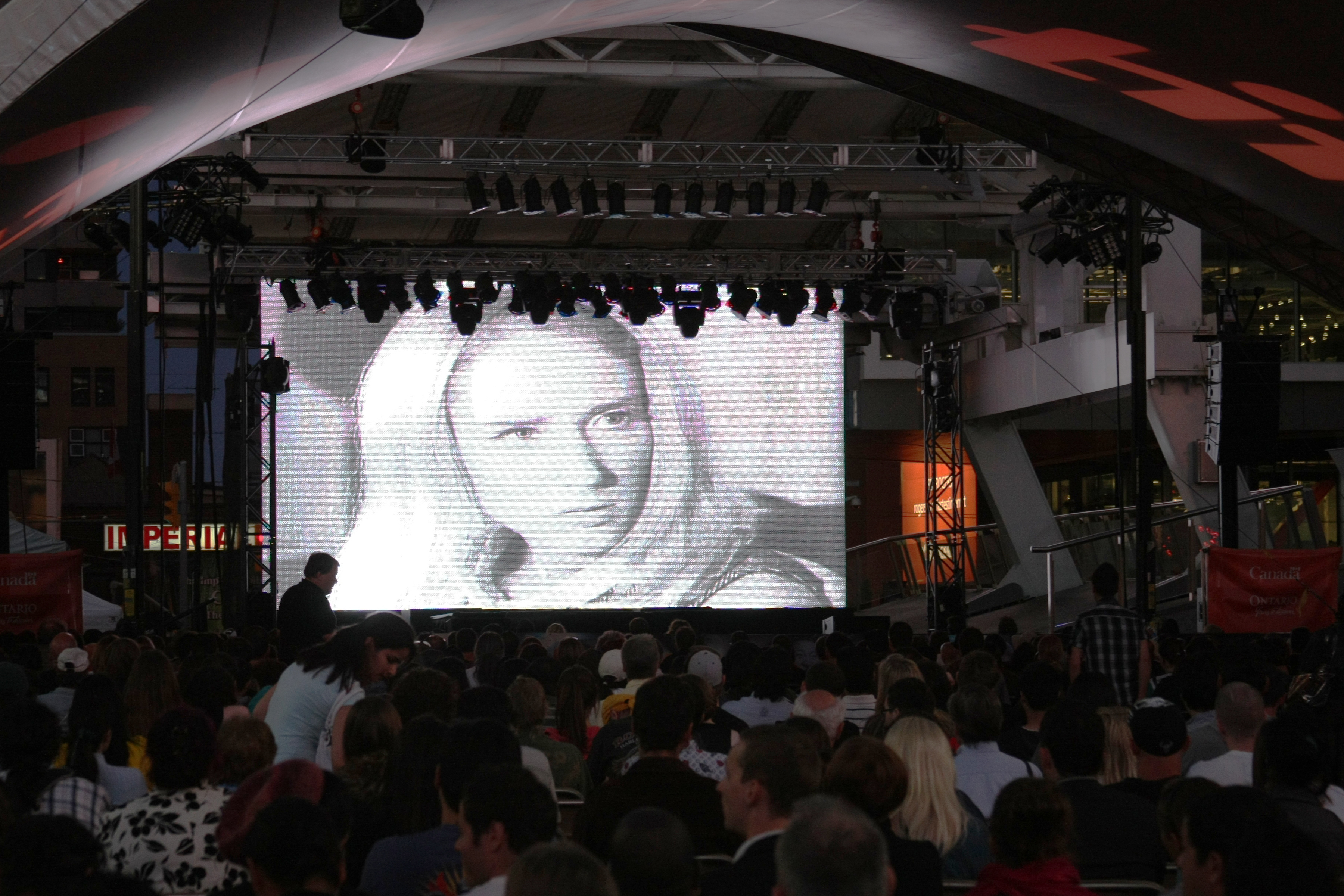 Night of the Living Dead at Yonge-Dundas Square